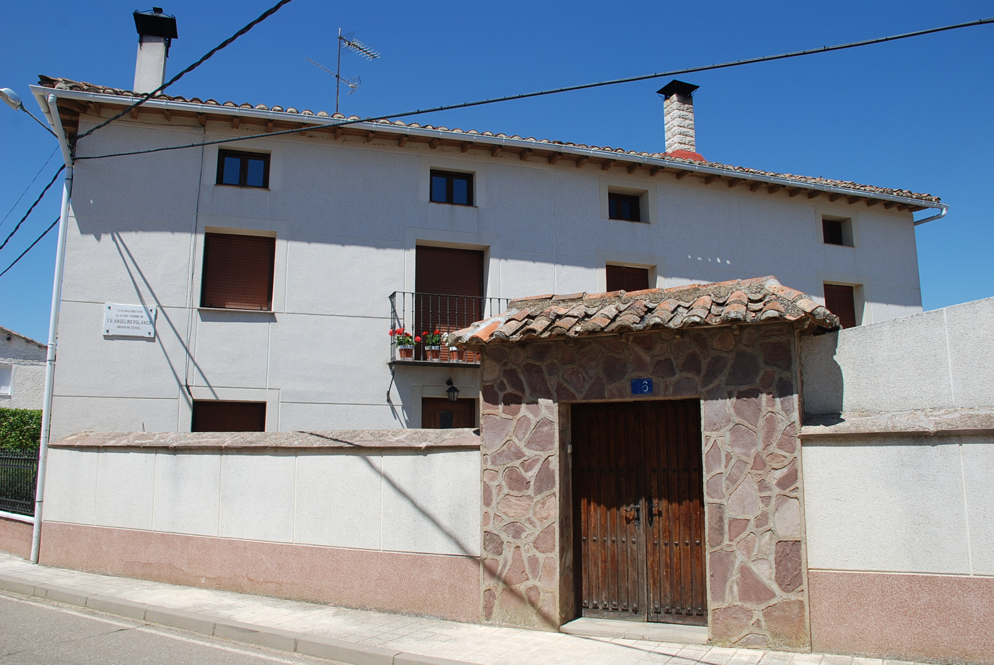 Birthplace of the Father Anselmo Polanco in Buenavista de Valdavia (Palencia, Castile and León).